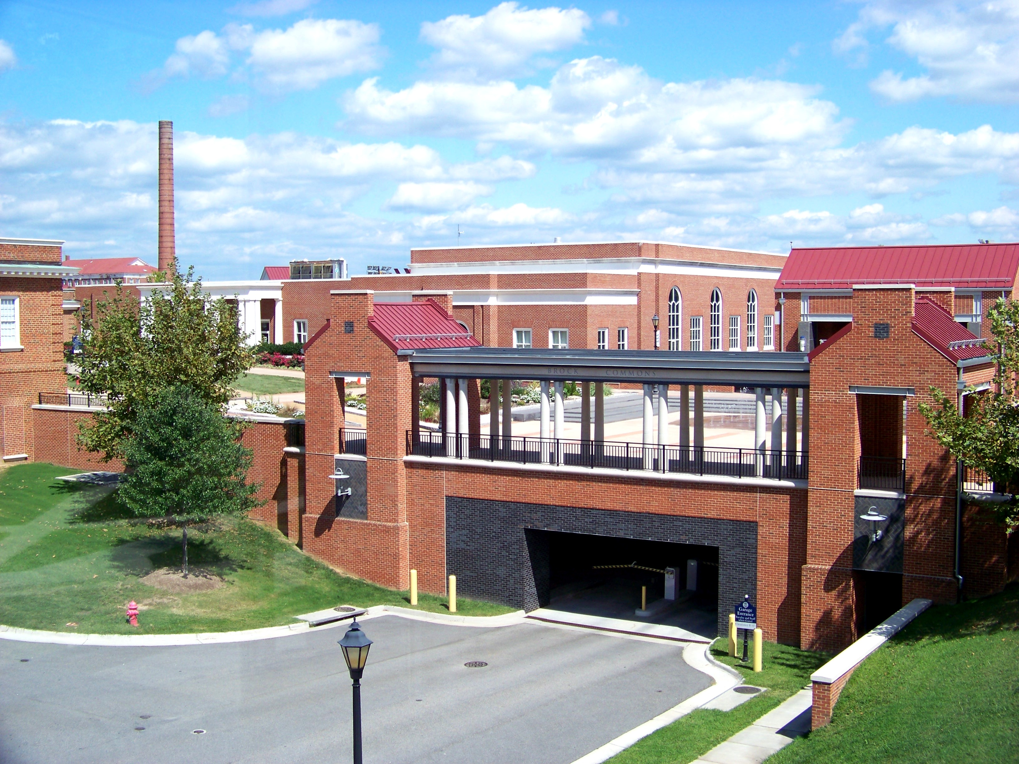 Brock Commons